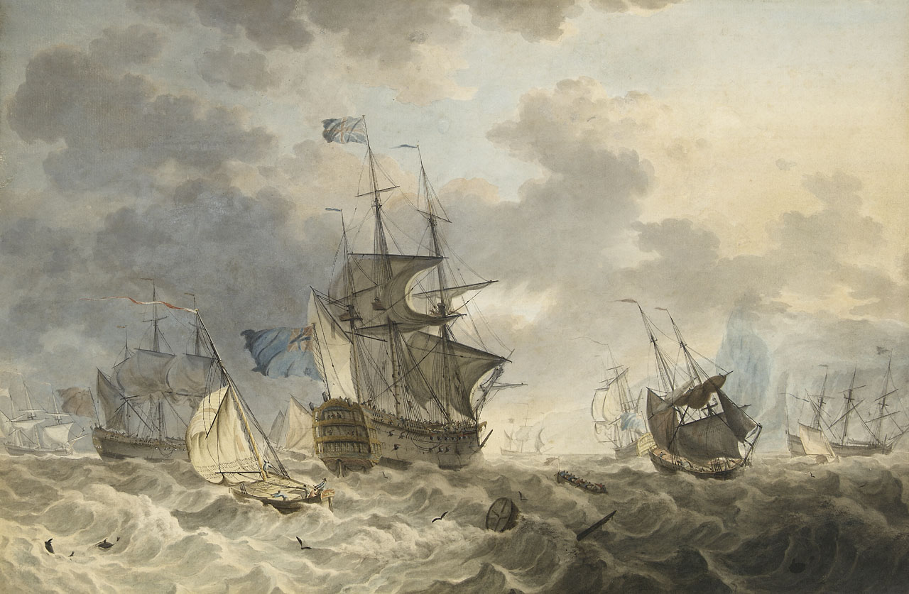 H.M. 'Ocean', 2nd Rate. Union at the Main off Gibraltar with tenders Hendrik Kobell was the eldest and most important of a family of artists originating in Rotterdam. He produced paintings and drawings, but was of considerable importance as an etcher, producing some twenty plates. An old, faint ink inscription on the back of the drawing identifies both the ship and the artist. Although the circumstances of its being made are not known it is likely that the drawing dates from Kobell's stay in England, possibly a commission for an English naval officer. H.M. 'Ocean', 2nd Rate. Union at the Main off Gibraltar with tenders Ocean 1761 [British navy]Terrier de France? [British navy]